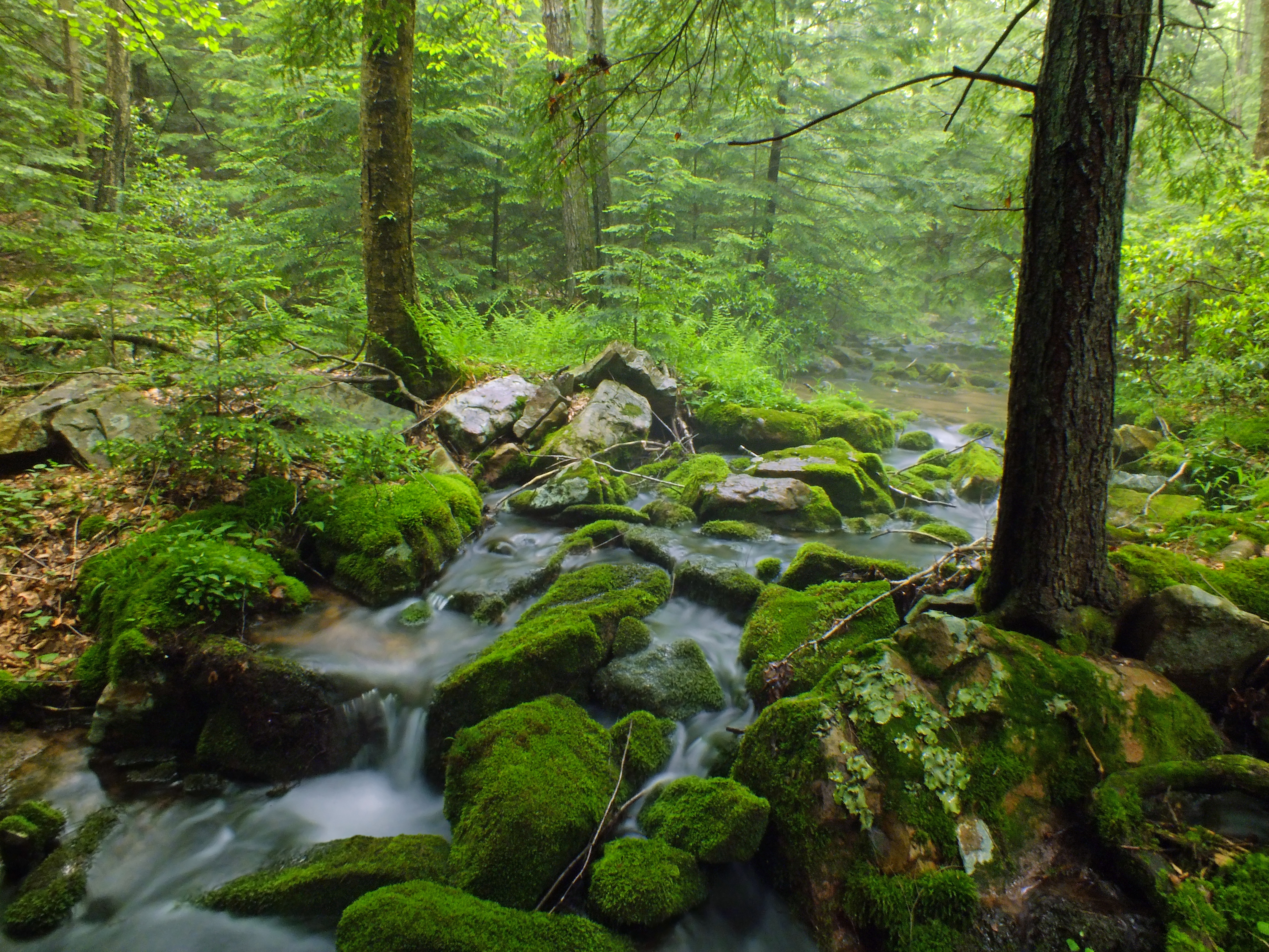 Panther Run, Union County, within the Hook Natural Area of Bald Eagle State Forest. The natural area protects 5100-plus acres of mountainous, heavily forested land.